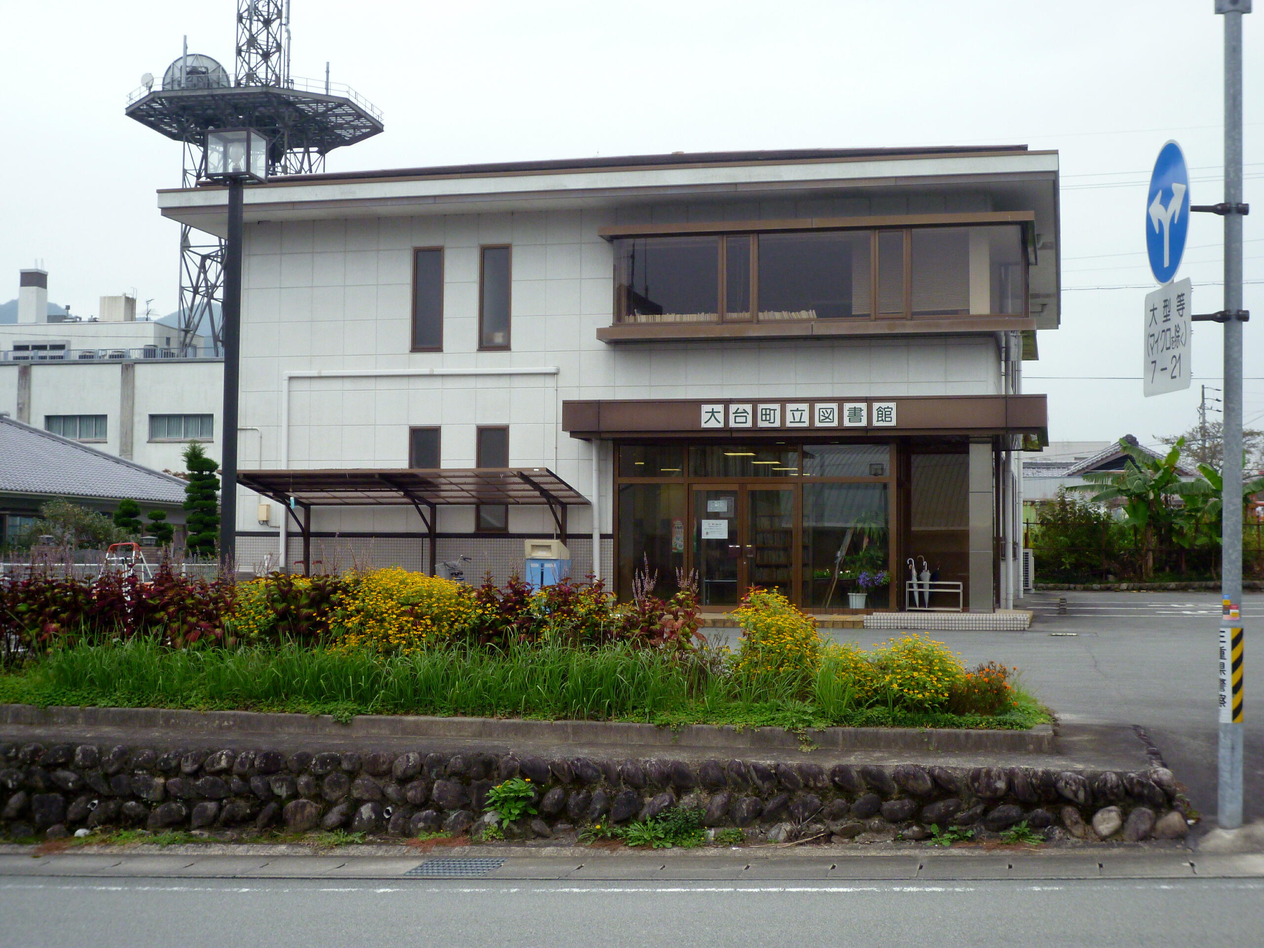 The "Ōdai Town Library" in Sawara, Ōdai Town, Taki District, Mie Prefecture, Japan.